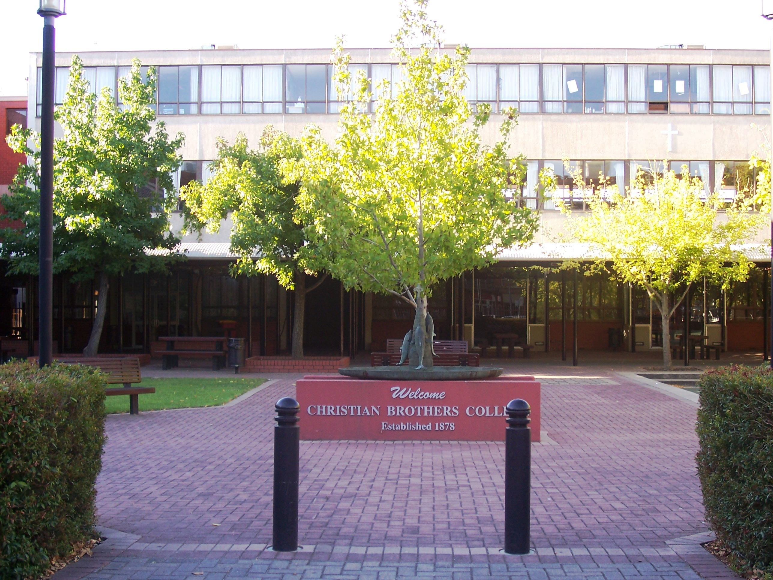 Picture of the Christian Brothers College, Adelaide, Australia